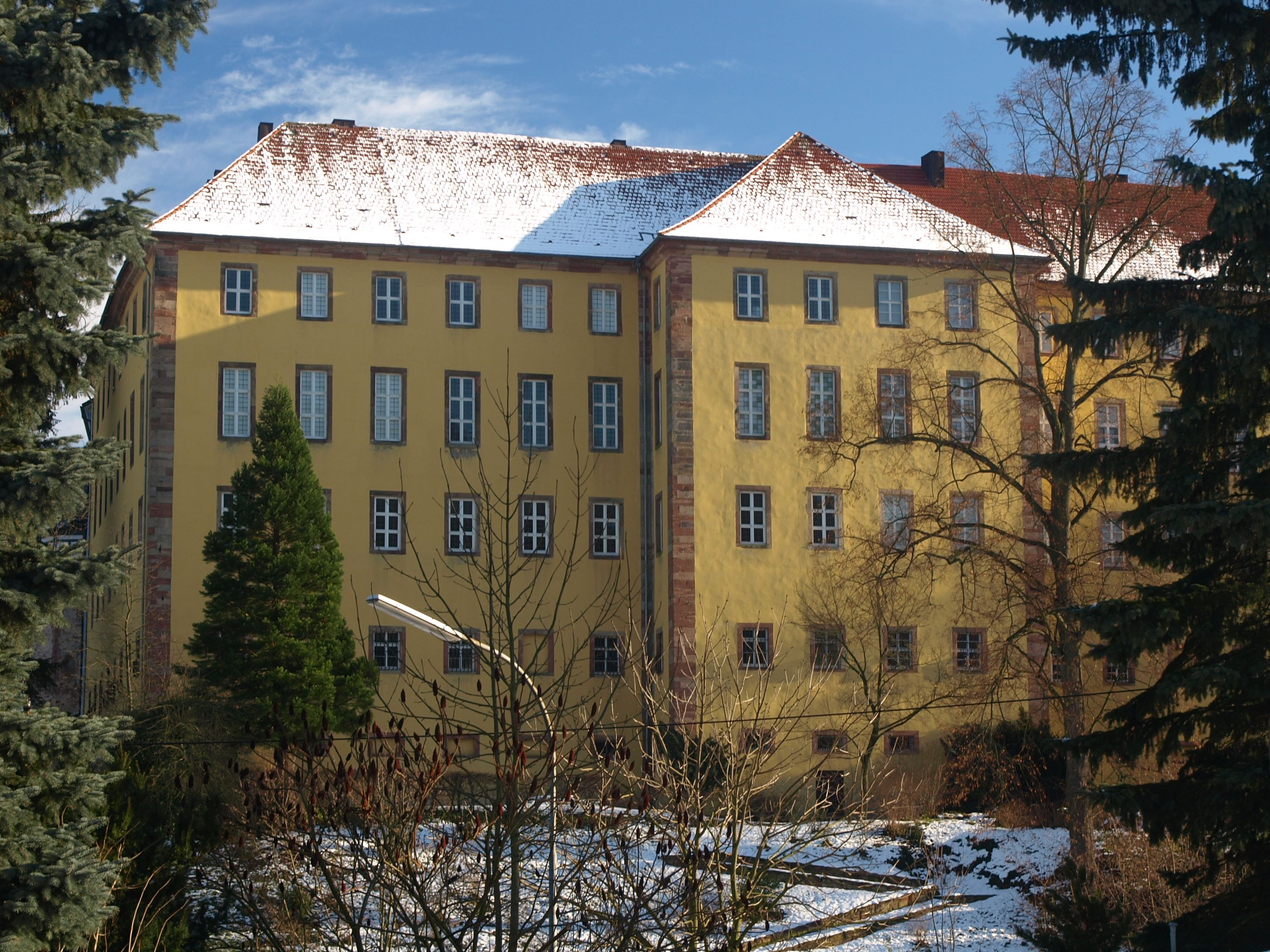 Southerly view of yellow castle (part of castle Tann) in town Tann (Rhön). Taken from the flood plain of the river Ulster